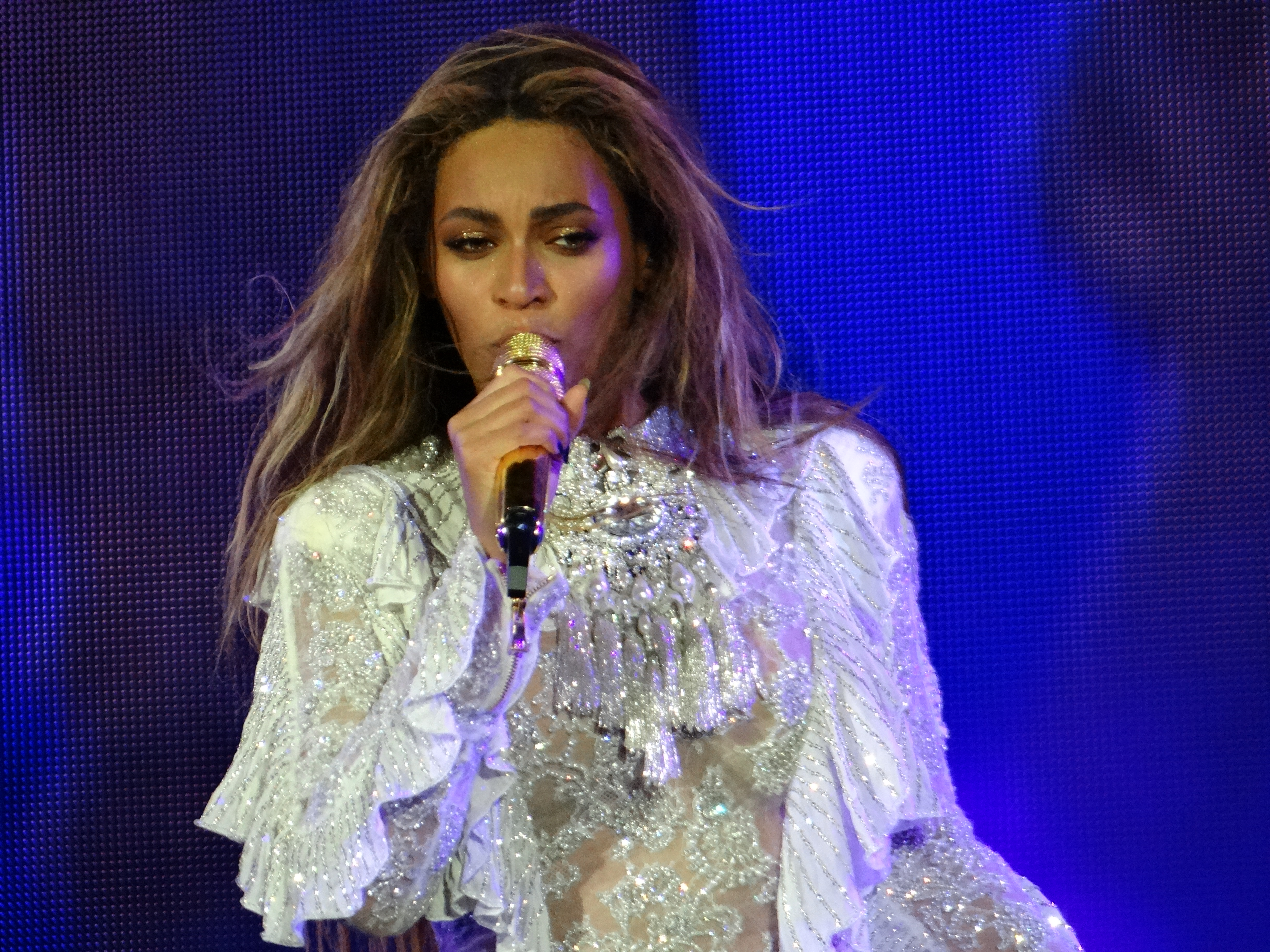 Beyoncé performing during The Formation World Tour in Raleigh, North Carolina on May 3, 2016